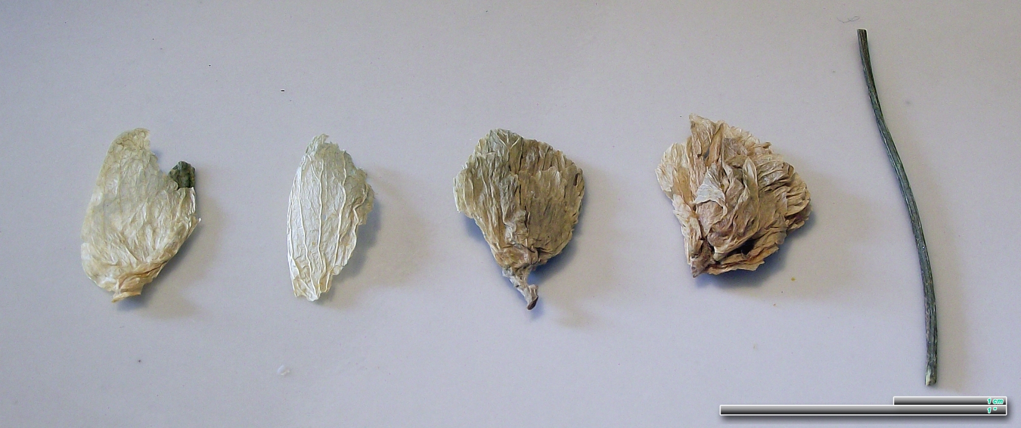 dried Hops (Flower) (Humulus lupulus)